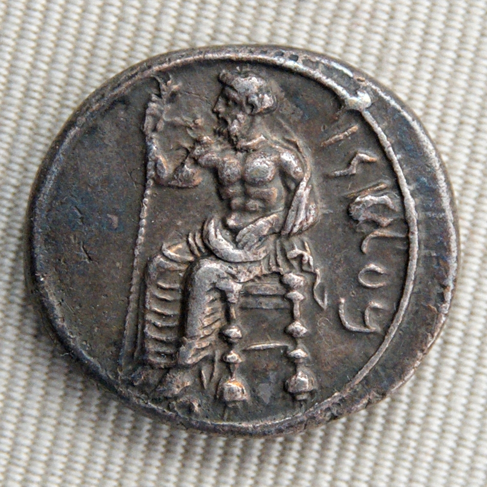 Double shekel of Pharnabazus, satrap in Tarsus, Cilicia (380-375 BC), obverse: Baaltars seated left.